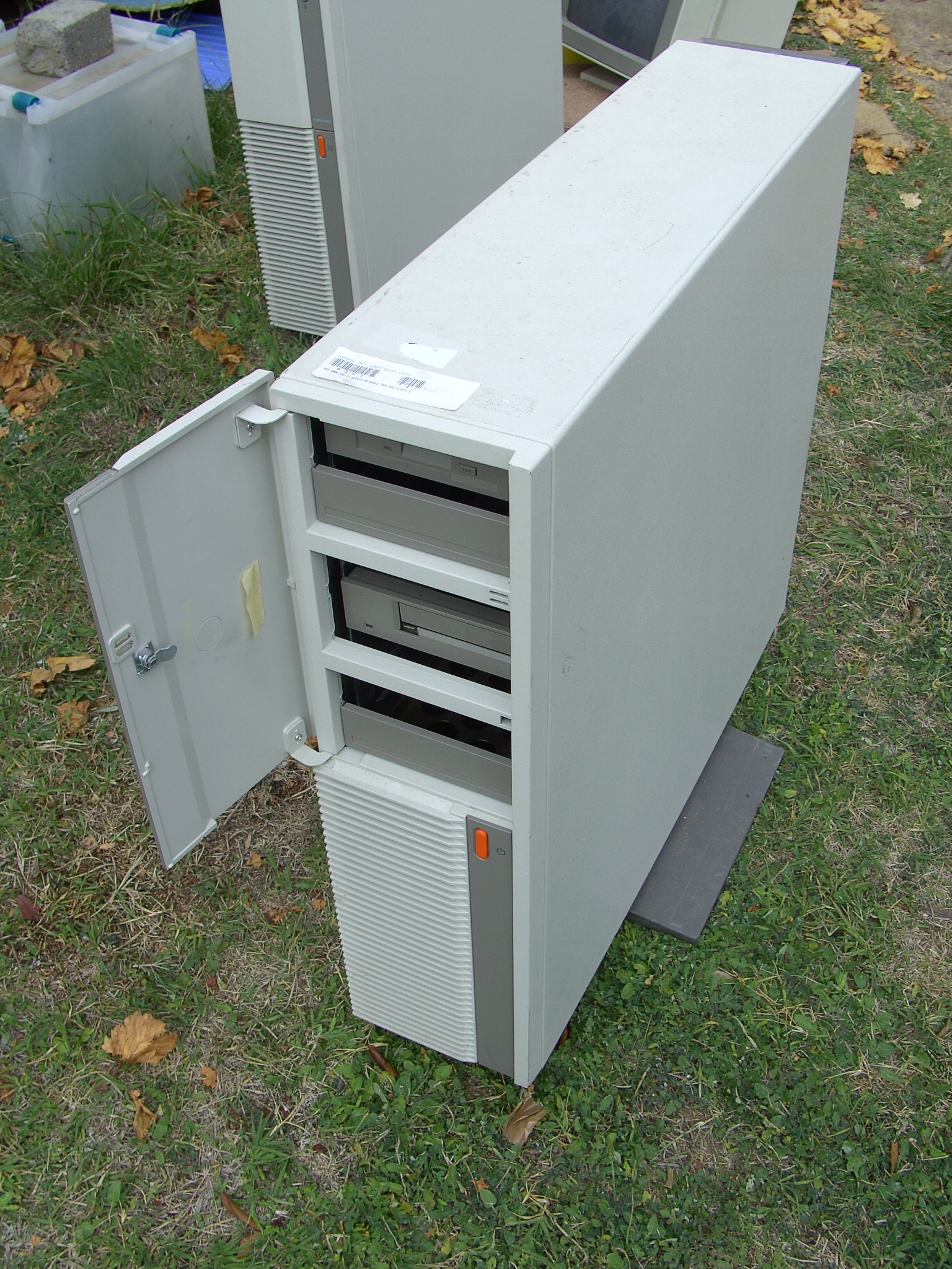 AT&T Computer Systems NCR Model 3000 (Class 3434) external view (manufactured 1989).